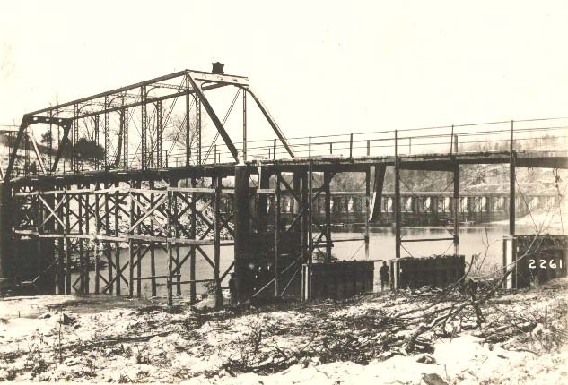 The Collins River Bridge, located at the mouth of the Collins River in the U.S. state of Tennessee, under construction as part of the Great Falls Dam project (the dam is visible on the right).